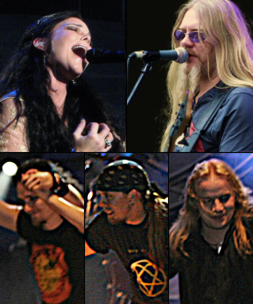 Tiled photo. Clockwise from the top: Anette Olzon, Marco Hietala, Emppu Vuorinen, Jukka Nevalainen and Tuomas Holopainen